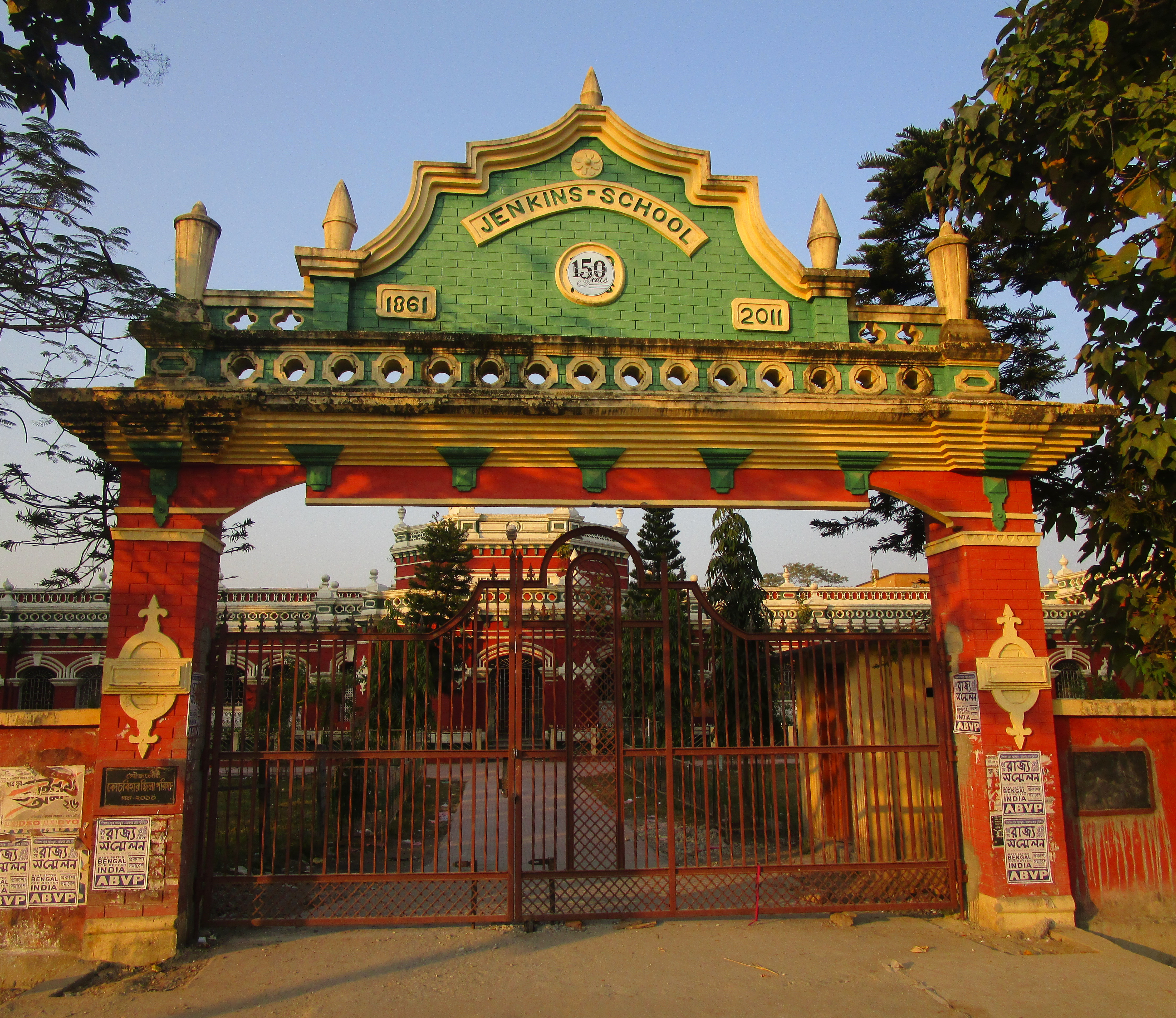 The main gate of Jenkins School at Cooch Behar district.